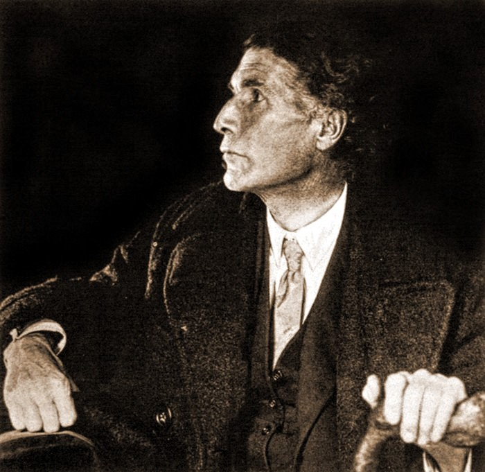 Rework of file from a scan photo from After The Victorians (there is another version at Commons File:John cowper powys.jpg)